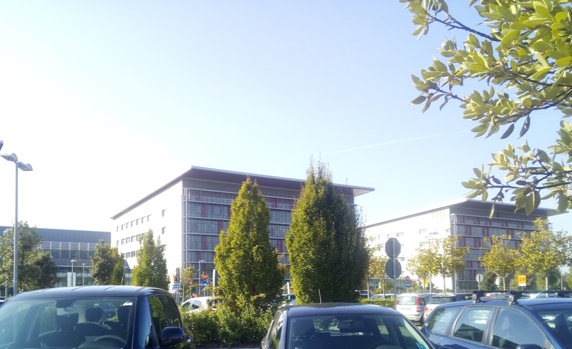 Hospital Papa Giovanni XXIII in Bergamo, Italy